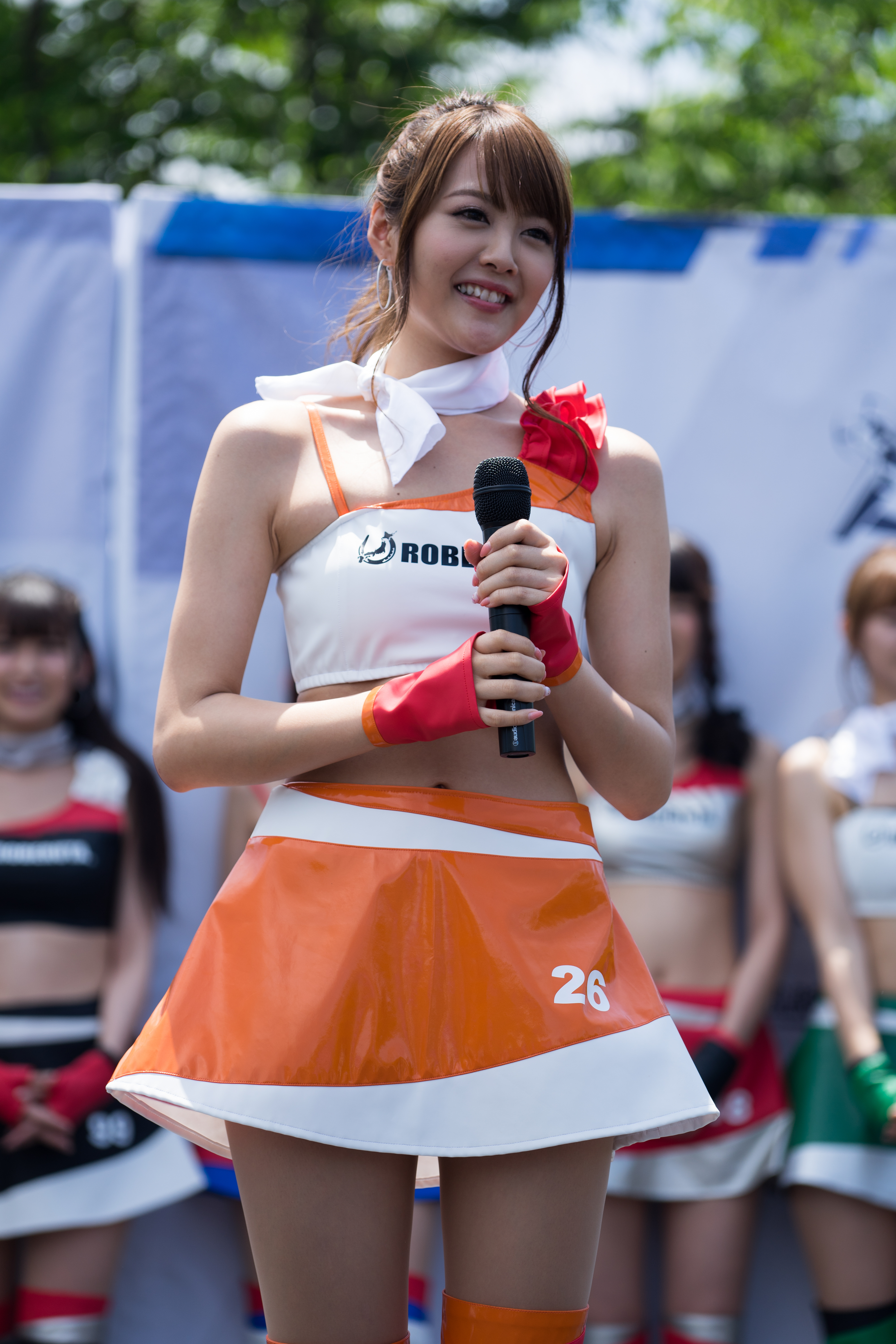 RED BULL AIR RACE CHIBA 2017-244.jpg